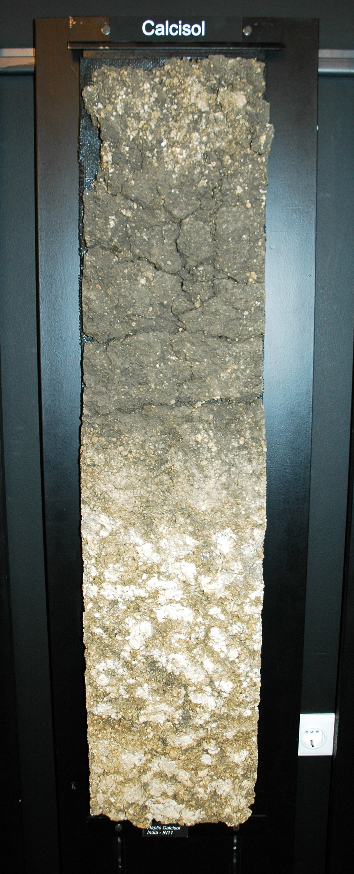 Soil profile of a Haplic Calcisol